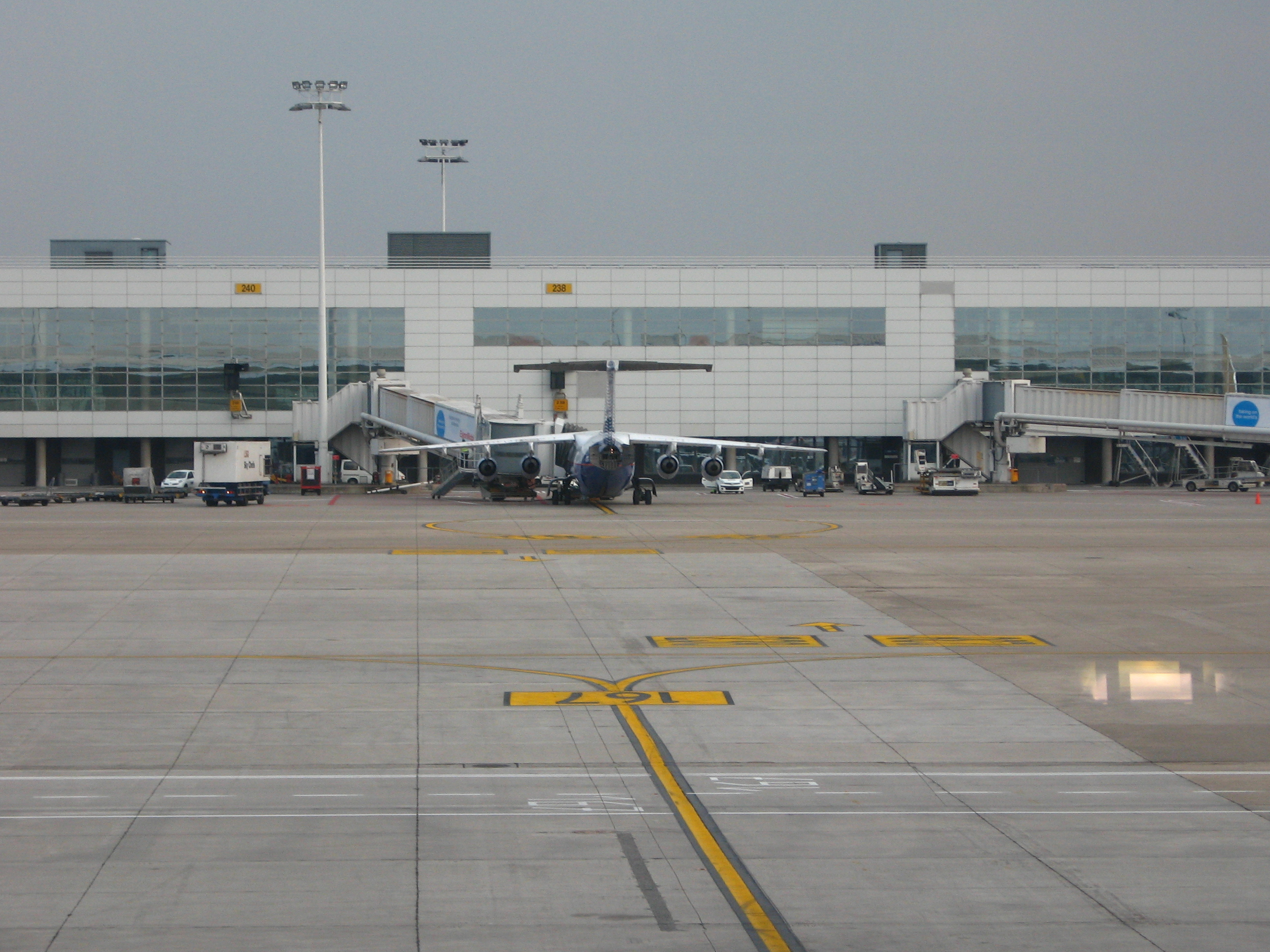 Pier B of Brussels Airport, seen from the airport building.